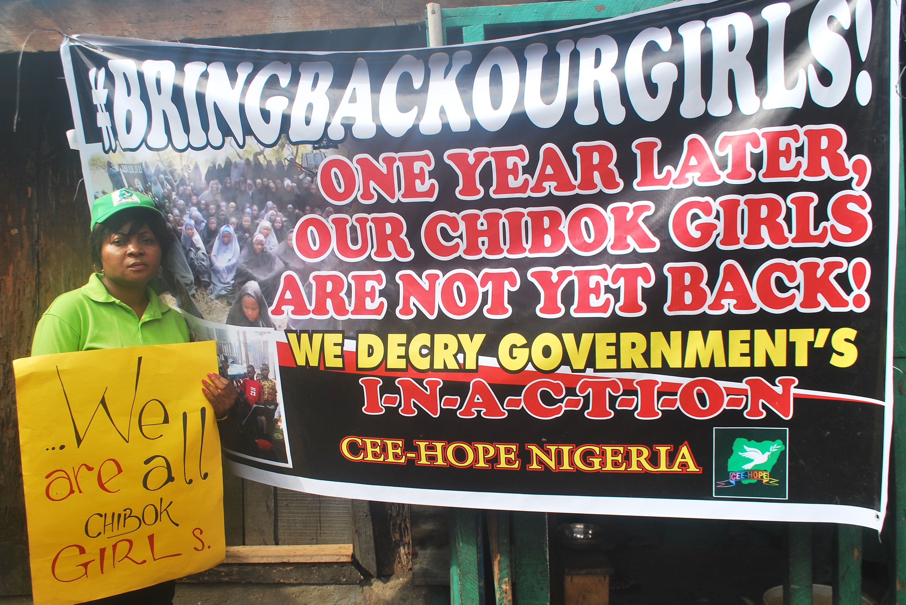 Remembering the Chibok girls. Betty Abah poses after an event to mark the first anniversary of the kidnap of over two hundred school girls in North-East Nigeria by the Boko Haram terrorist group.